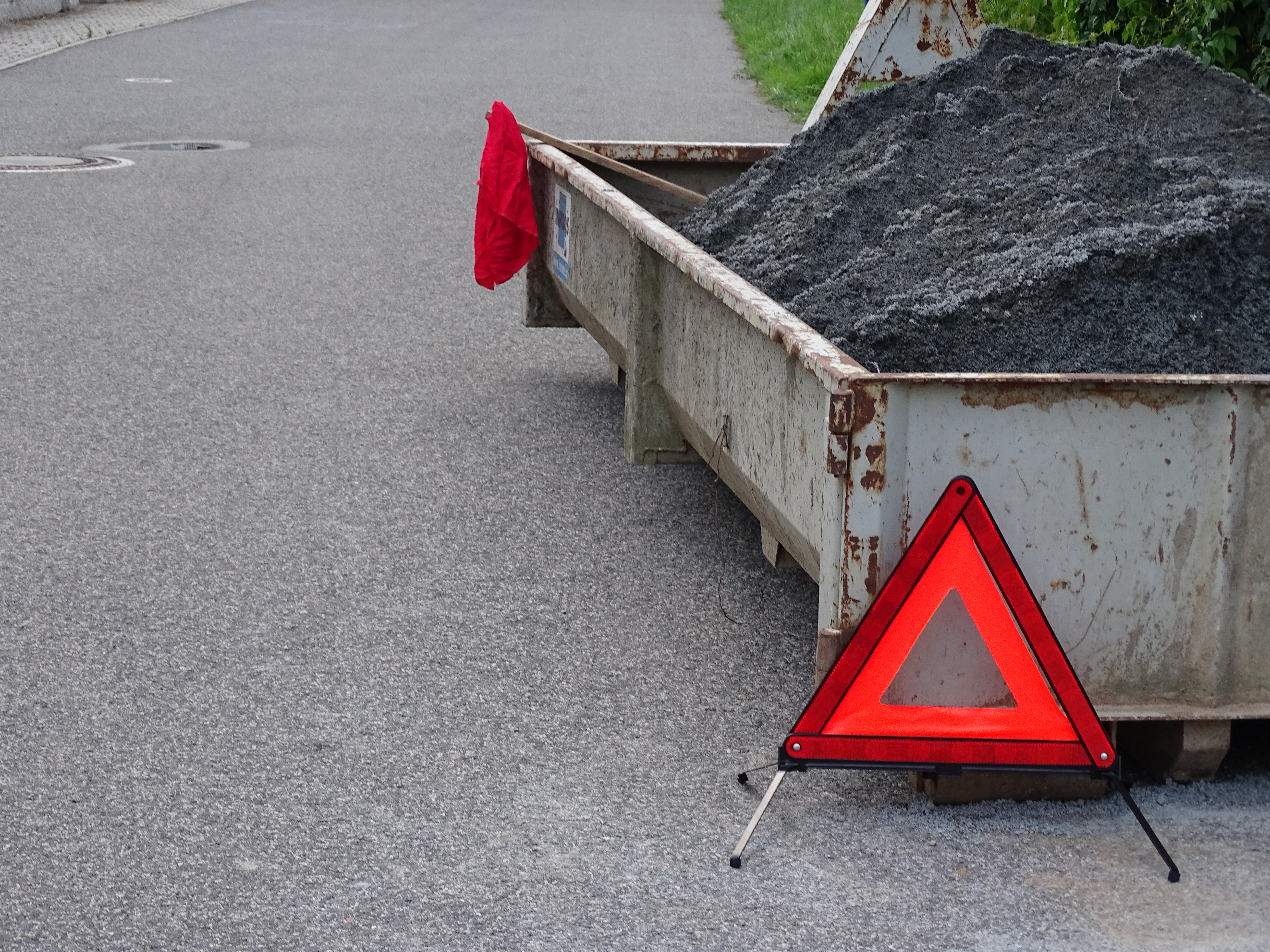 Černošice-Dolní Mokropsy, Prague-West District, Czech Republic. Topolská street, a container.